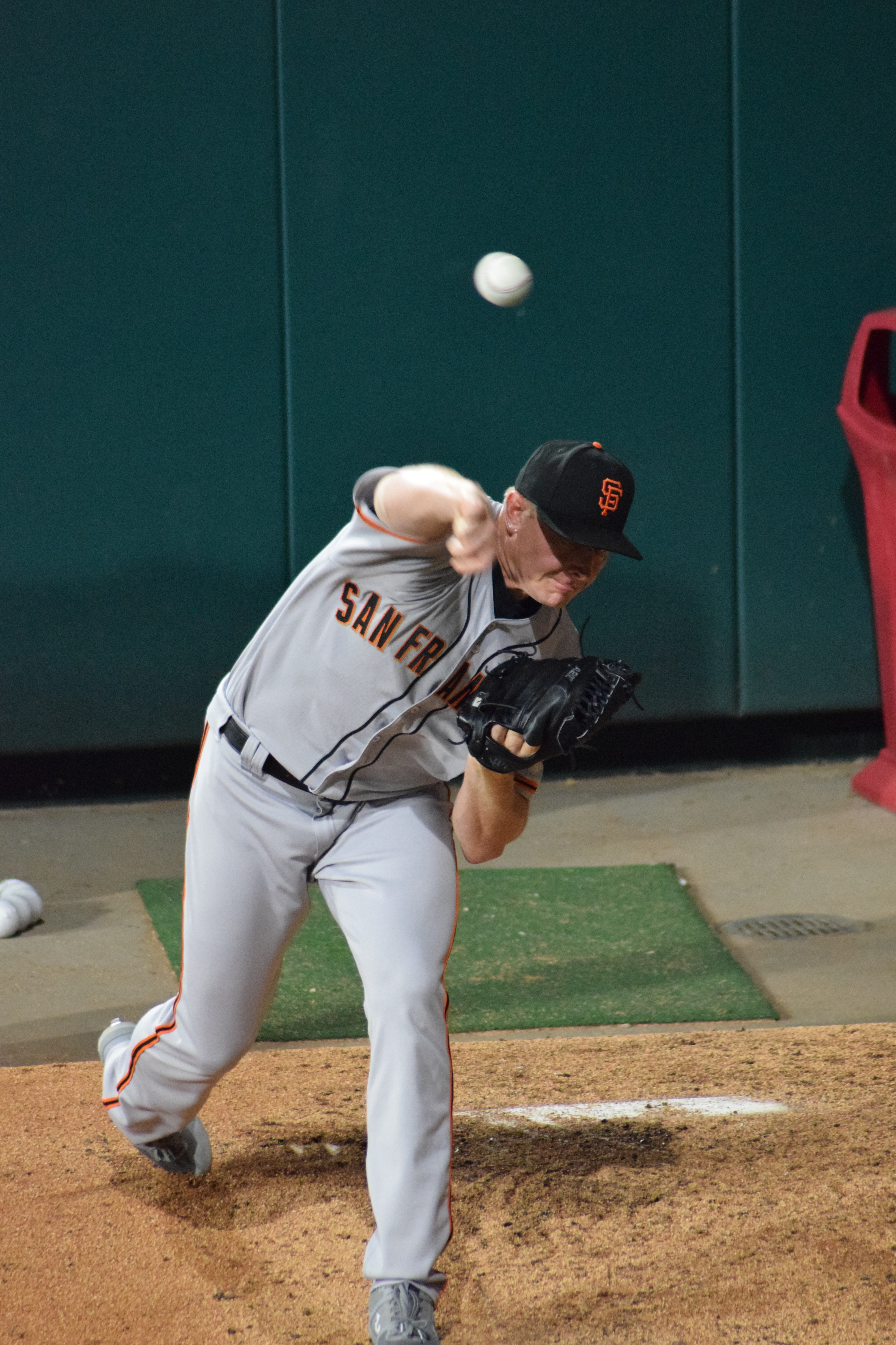 San Francisco Giants pitcher